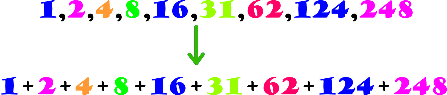 496 is the third perfect number.